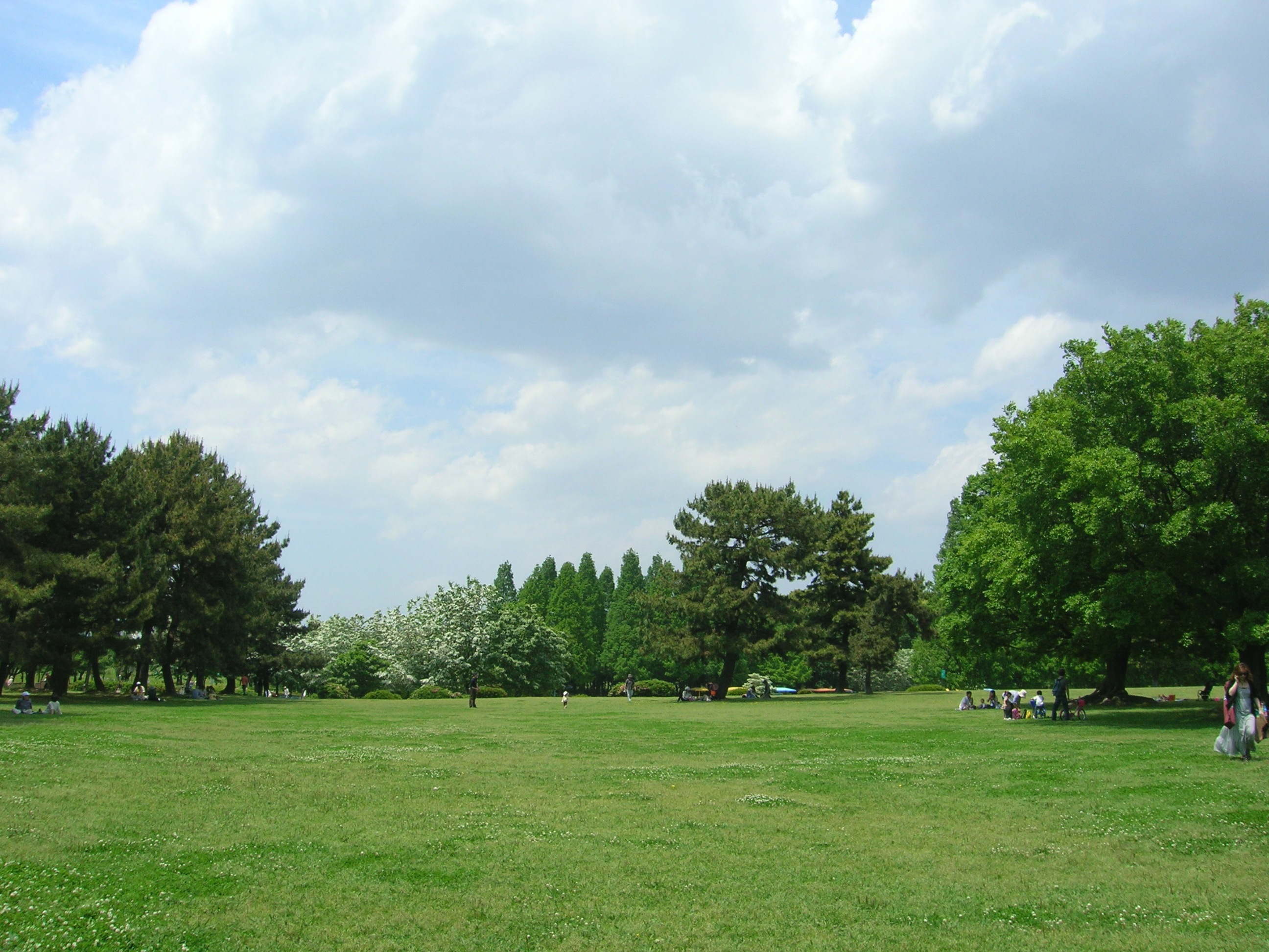 Shonai ryokuchi (Shonai green). Loc: Nagoya city, Aichi Prefecture, Japan. 庄内緑地 撮影場所 愛知県名古屋市西区